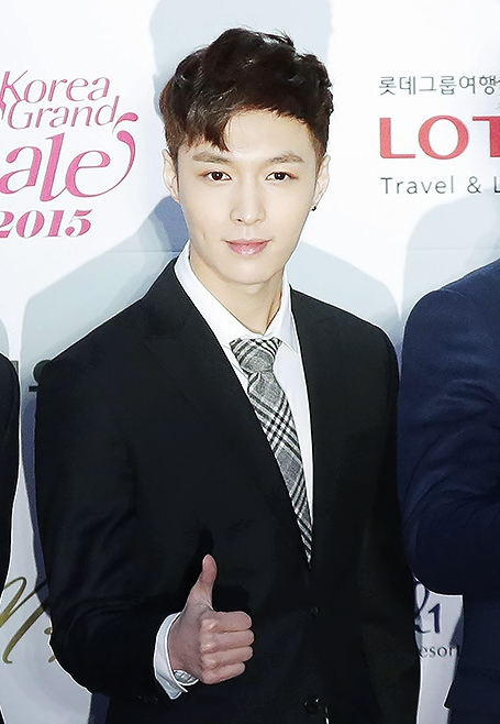 Lay Zhang at Seoul Music Awards on January 22, 2015.